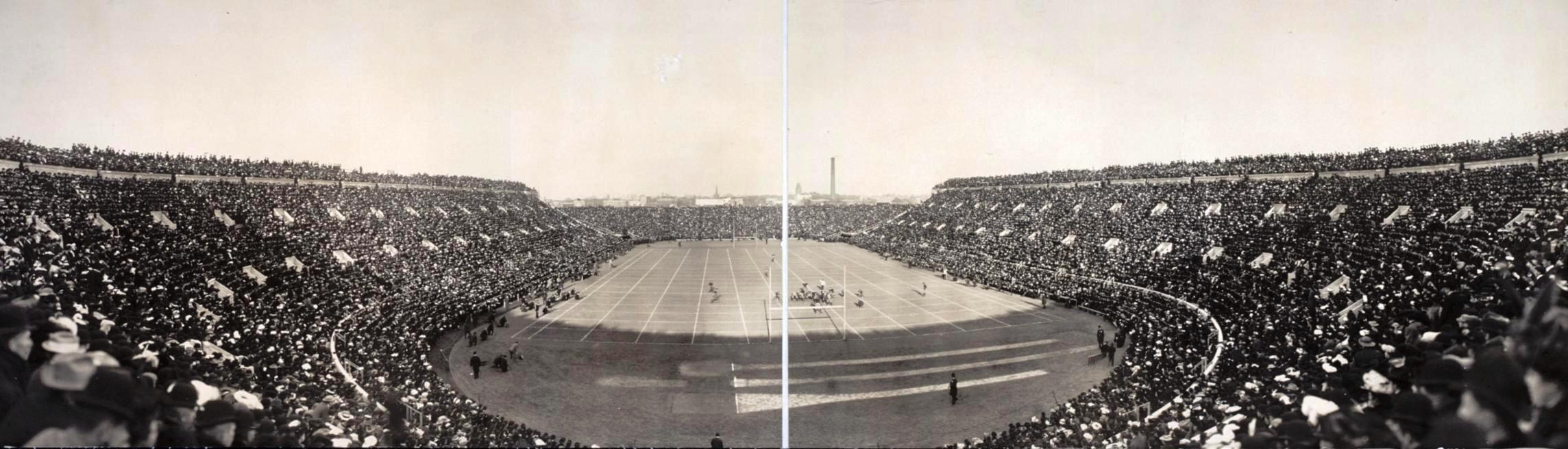 A football game between the Yale Bulldogs and Harvard Crimson.